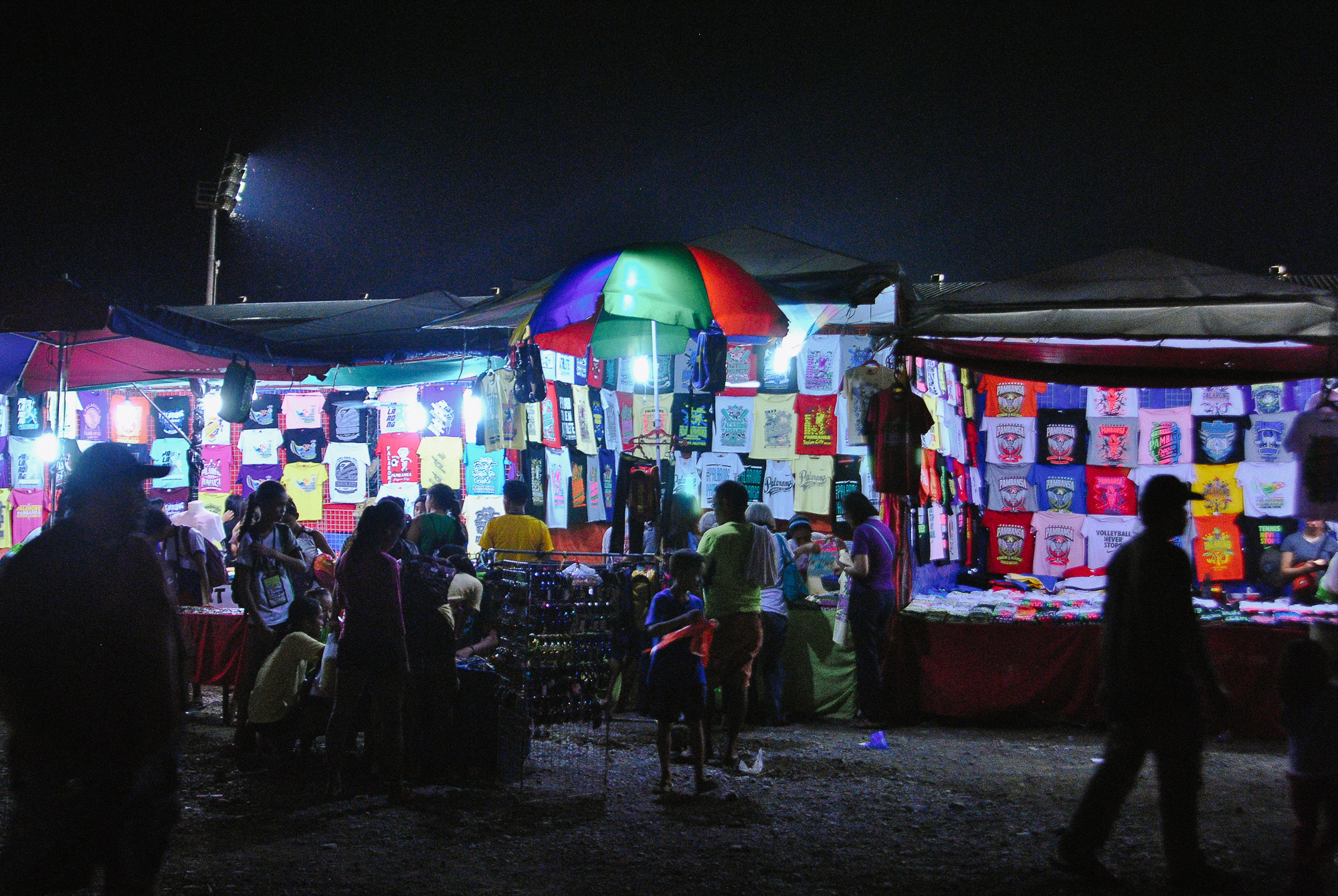 Various stalls selling souvenir items at the Davao del Norte Sports and Tourism Complex during 2015 Palarong Pambansa.